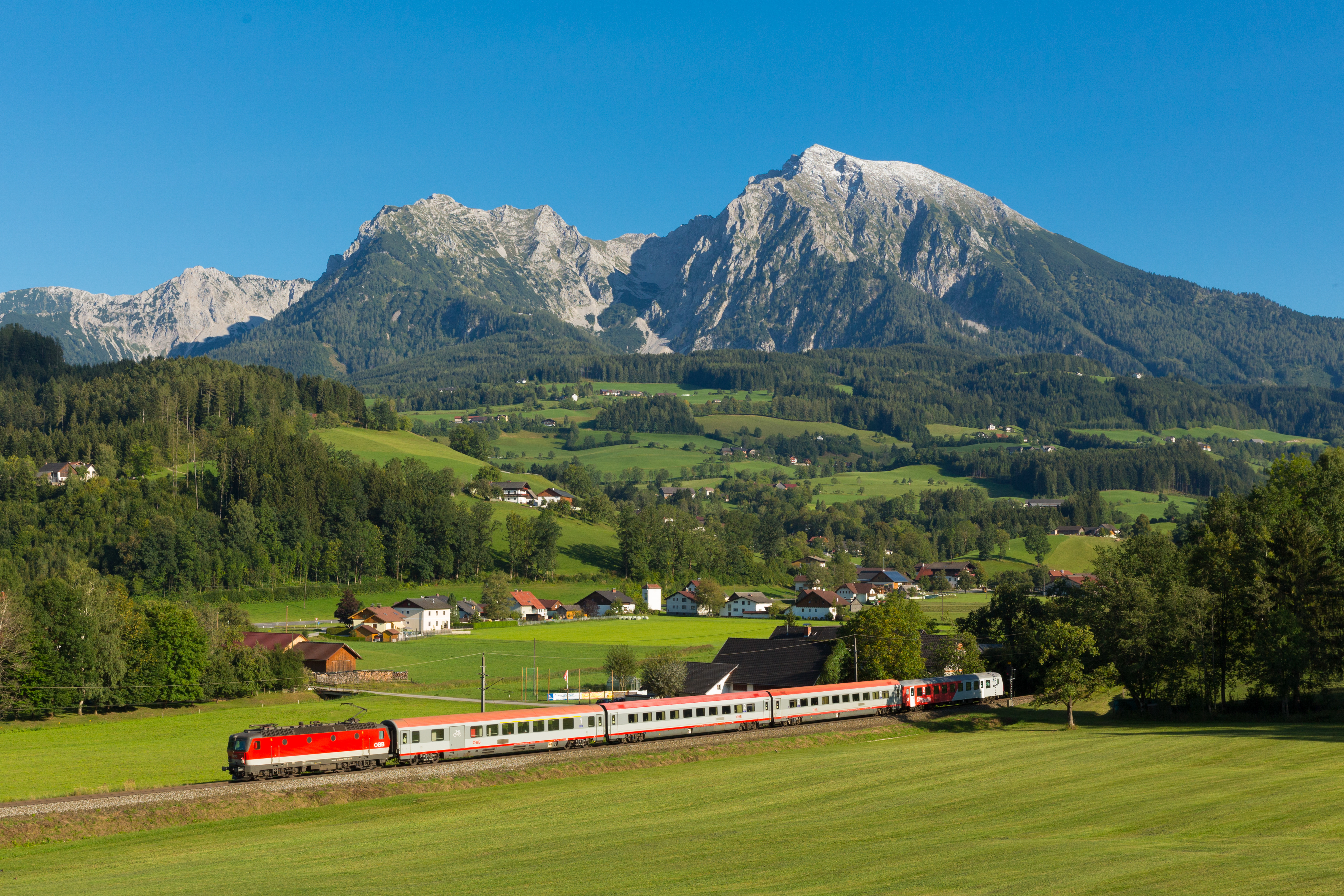 IC 600 "Bosruck" near Spital am Pyhrn.